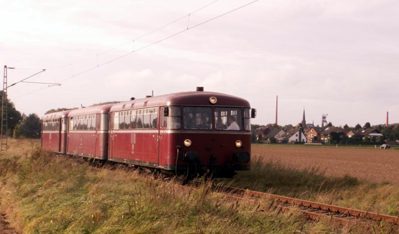 fotographed by me